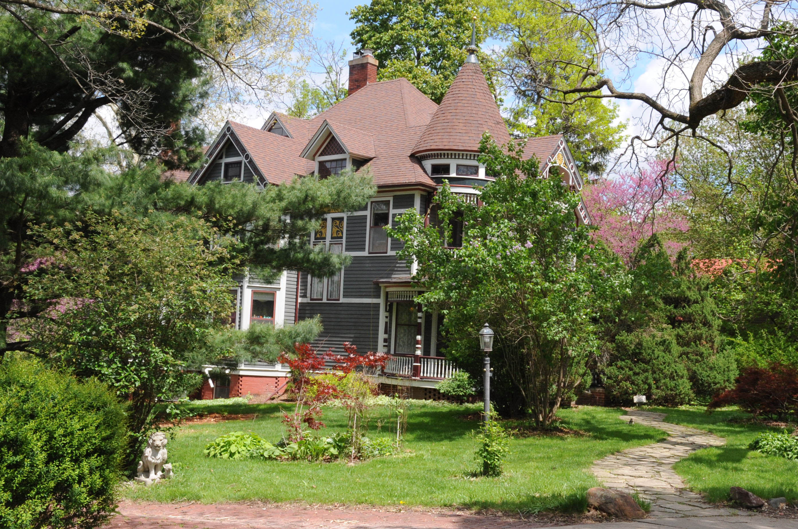 BEGINNING IN THE 1880S HOUSES WERE BUILT ALONG WOODLAWN AVENUE’S SPACIOUS LOTS FEATURING GOTHIC REVIVAL, ITALIANATE, QUEEN ANNE, STICK/EASTLAKE, AND TUDOR REVIVAL STYLES. THROUGH THE YEARS, A WOODLAWN ADDRESS, LIKE THAT OF SOUTH SUMMIT STREET, CONNOTED PRESTIGE. LESS THAN 20 HOUSES ARRANGED IN A Y-SHAPED CUL-DE-SAC MAKE UP THE DISTRICT